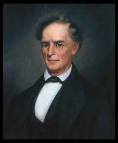 Portrait of Kentucky Governor William Owsley